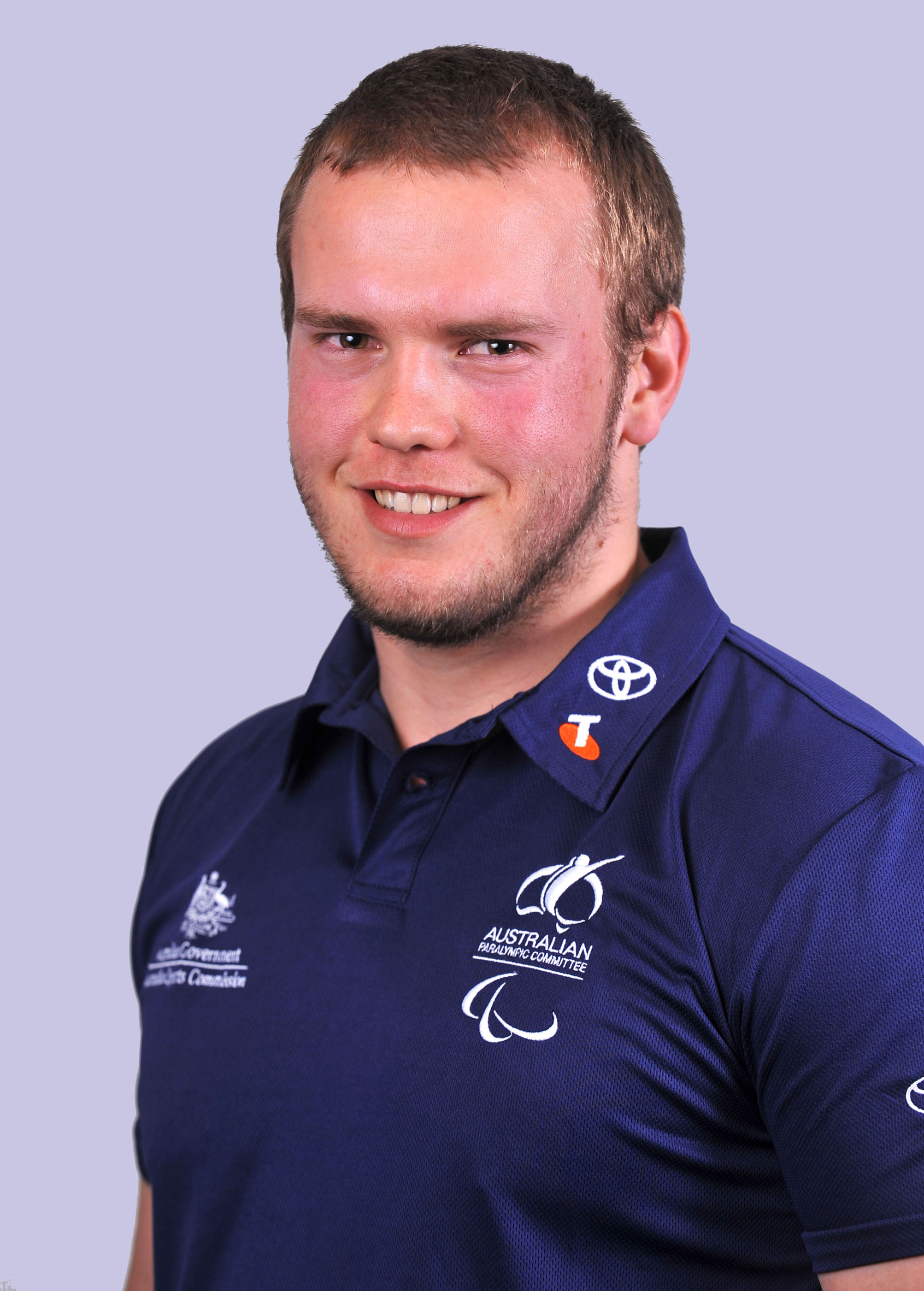 Portrait of Australian athlete Lindsay Sutton, 2012 Australian Paralympic (shadow) Team athlete